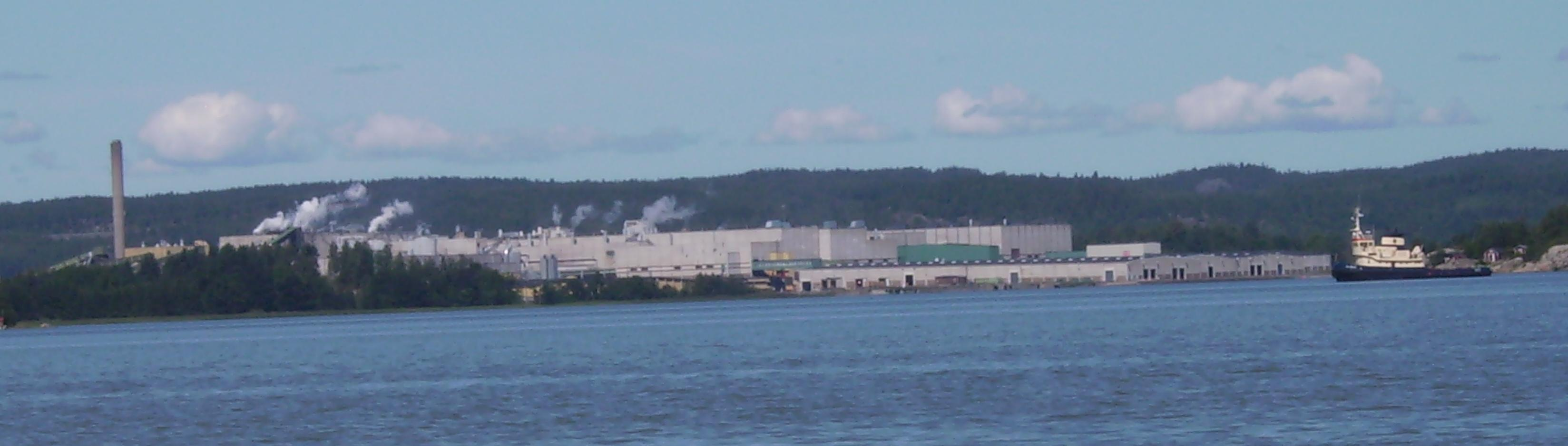 The harbour and factory area in Norrköping and the bay Bråviken.